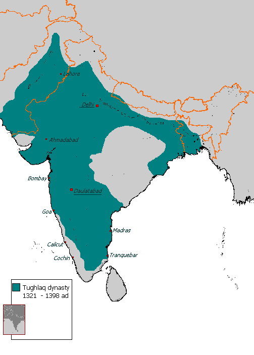 Tughlaq dynasty 1321 - 1398 ad